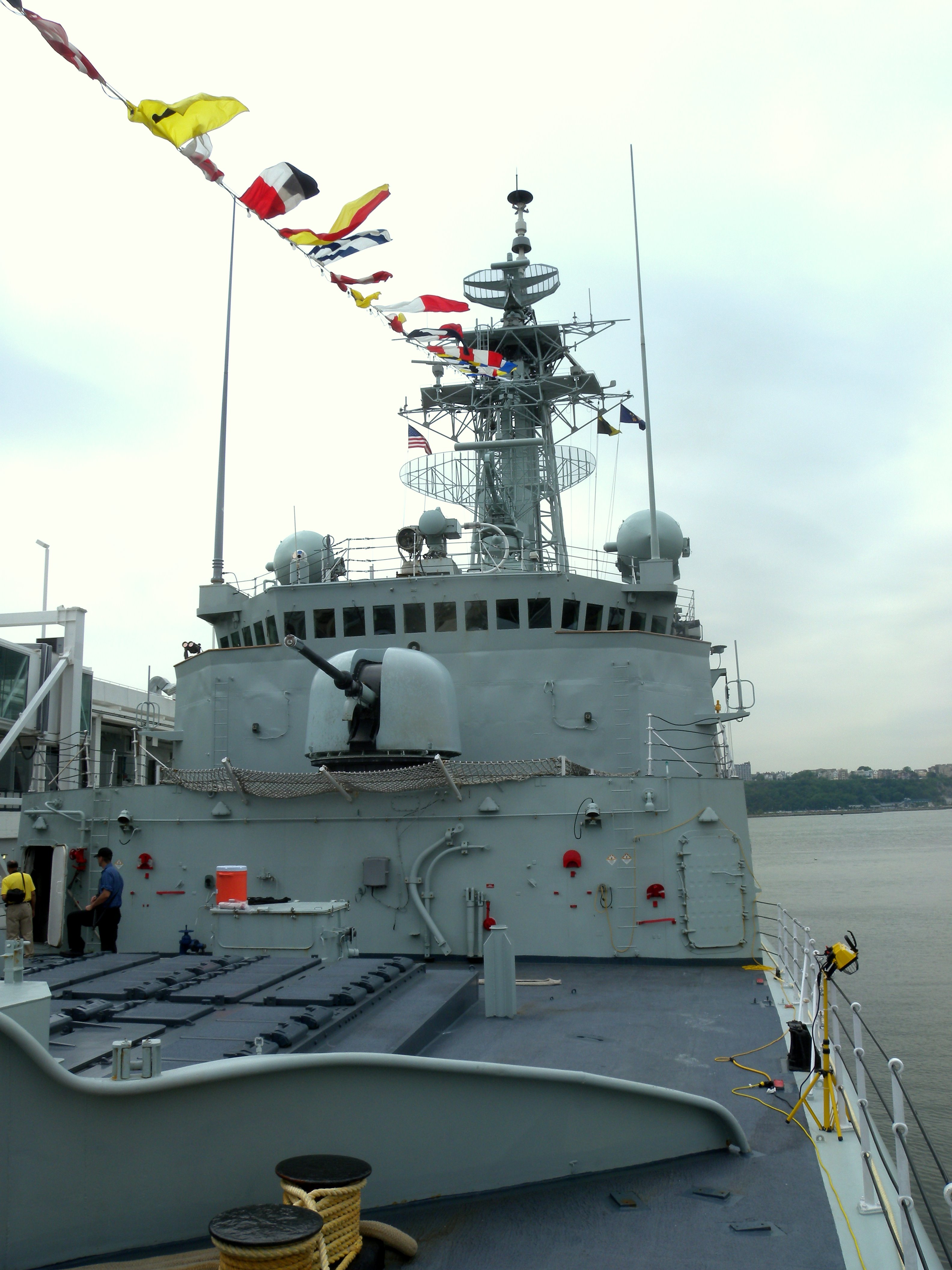 Looking abaft from port bow at gun and bridge on a cloudy afternoon.